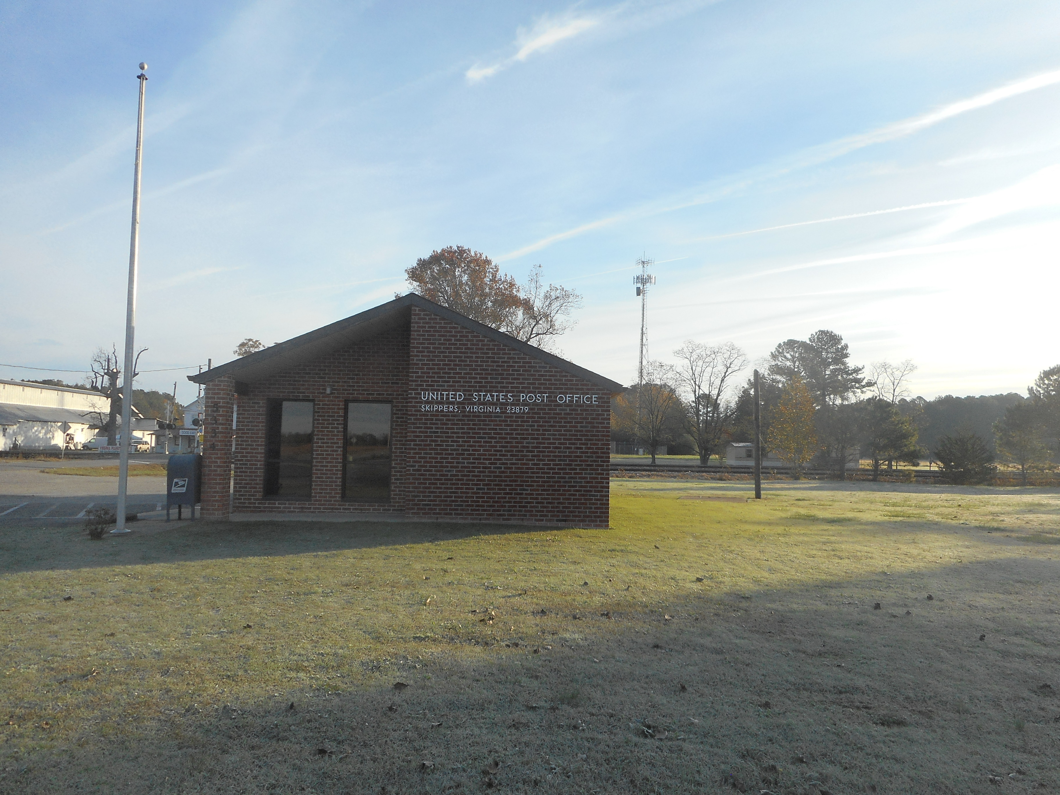 The Skippers Post Office (ZIP Code 23879) on the southeast corner of US 301 and Virginia Secondary Route 629 in Skippers, Virginia, a small rural community in southern Greensville County, Virginia. Further details and a rename to come later.